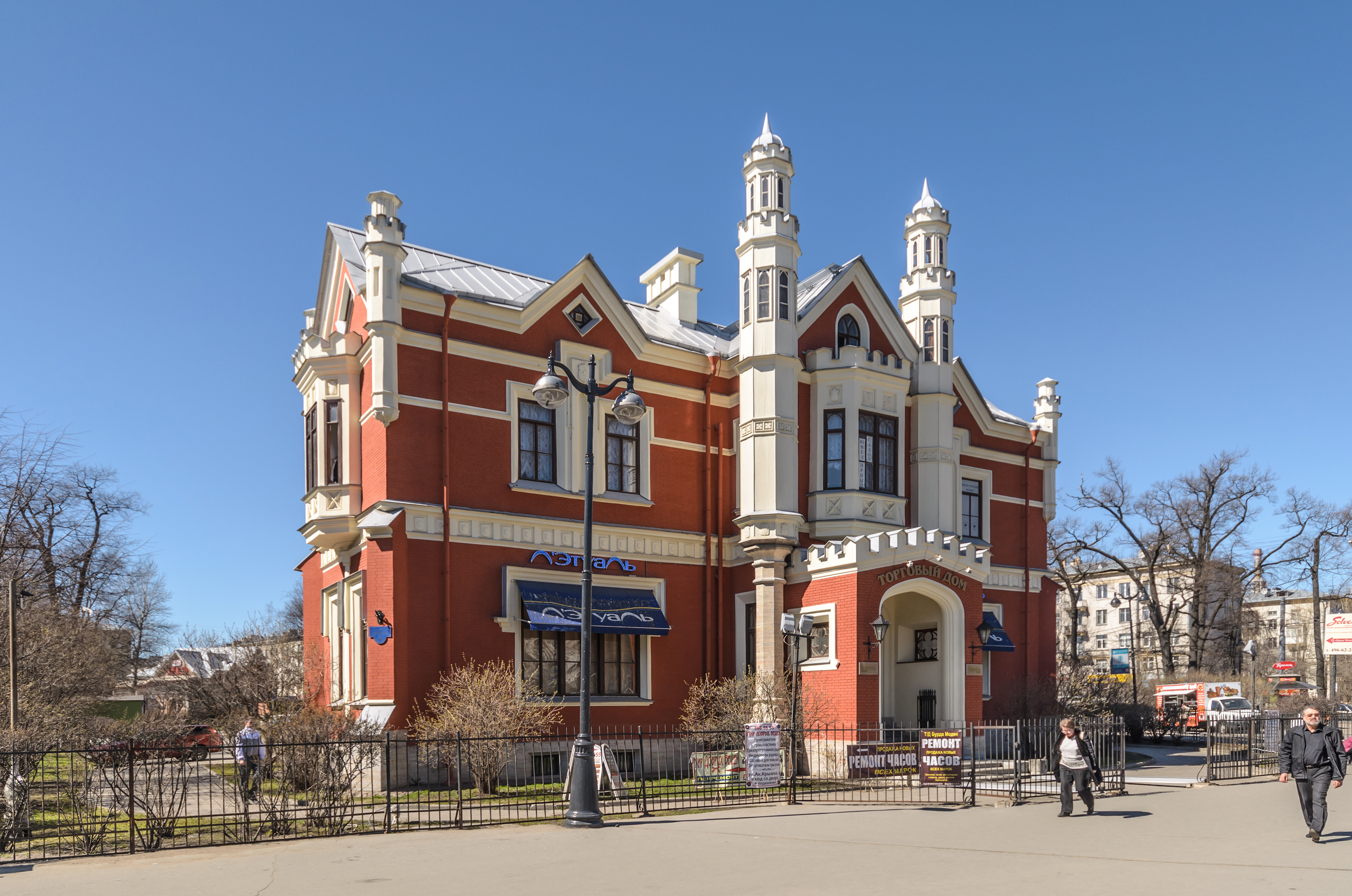 Saltykova Manor in Saint Petersburg